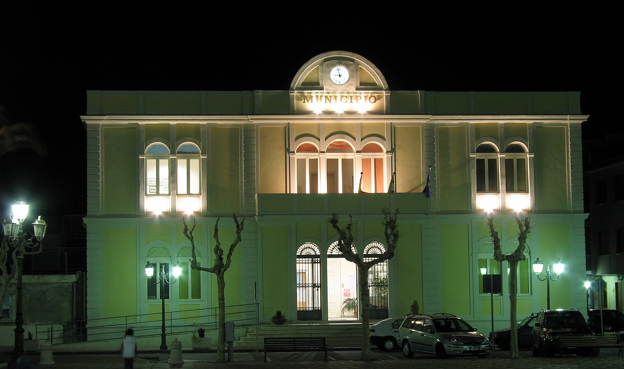 Town hall of Spadafora.